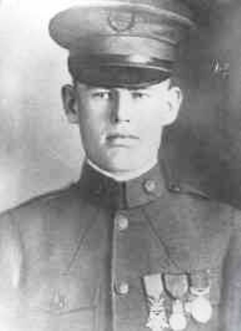 WWI Medal of Honor recipient Gary E. Foster. He wears the Medal of Honor, the French Médaille militaire and the British Distinguished Conduct Medal.